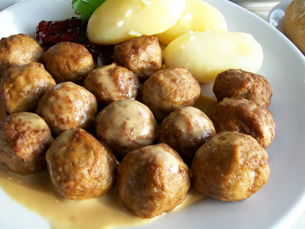 MEATBALLS! How typical! Considering we are, uh, Swedish!